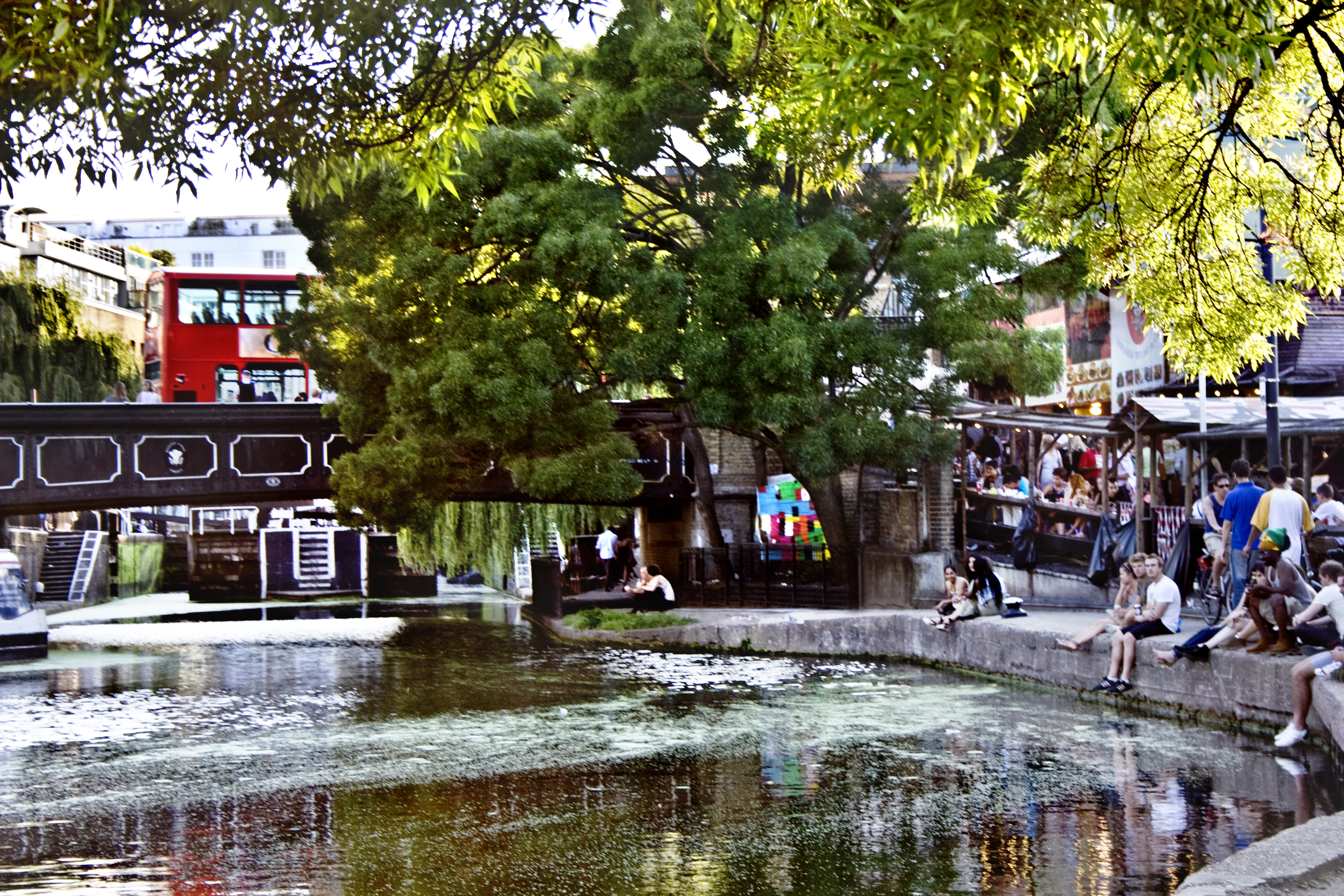 London - Camden Town phtotgraphed by by Horst Michael Lechner